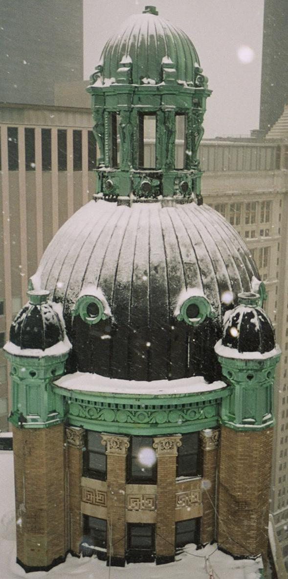 15 Park Row Building - Tower